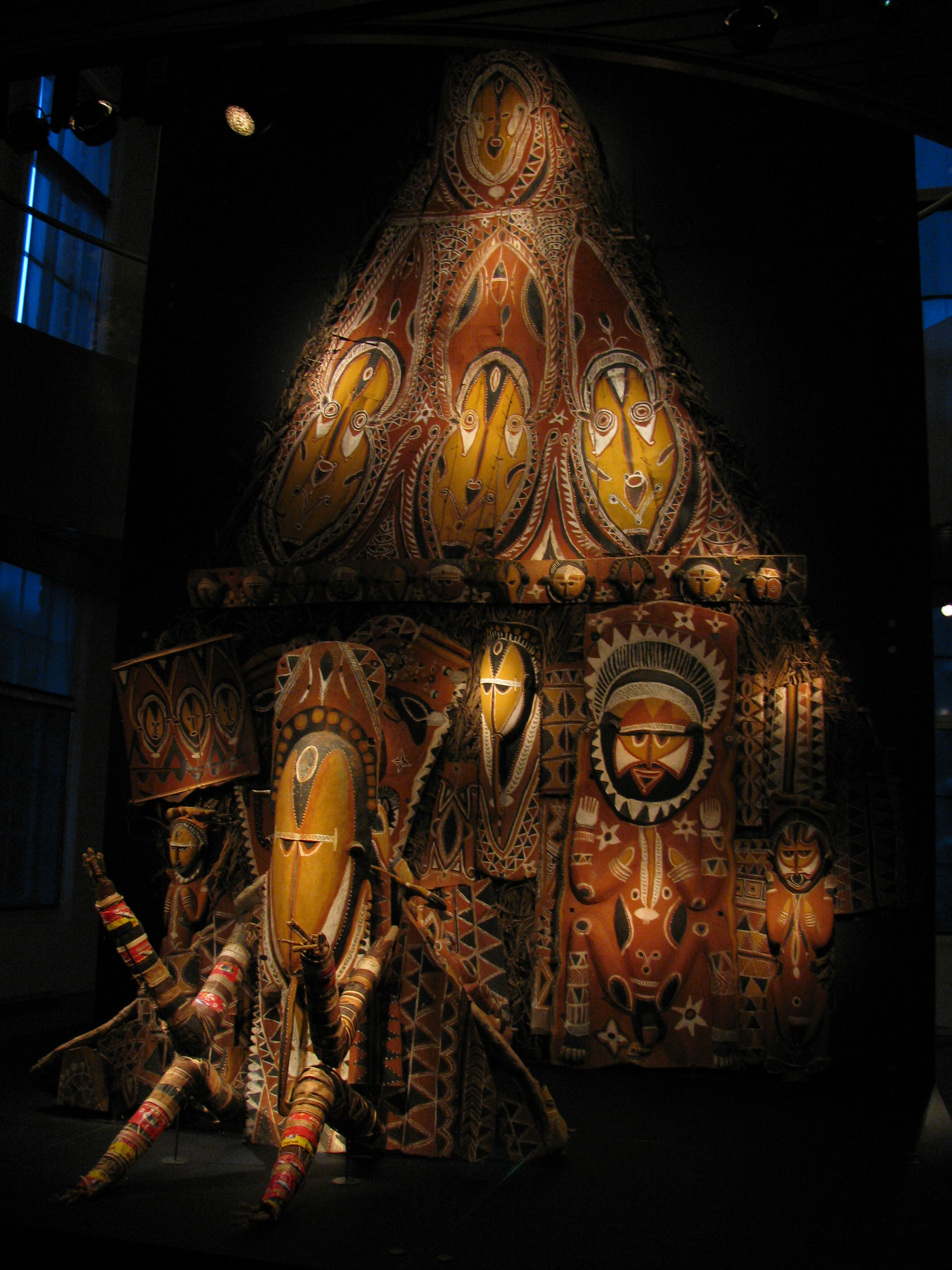 Special placement for initiation of men in the ceremonial house of the village Apangai, Papua New Guinea, 1984.Nowadays placed in the State Museum of Etnology, Leiden, The Netherlands.In the front one sees the clanfounder Tappoka. Behind him: female jungle-ghosts, clan-ancestors and mythical ancestors like the creator of the yam-tuber.